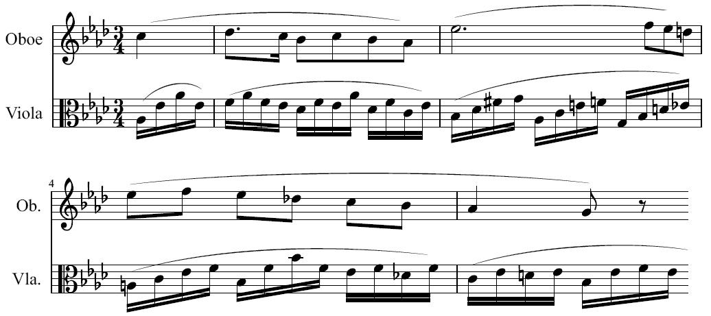 Theme of Gretchen from Faust Symphony (Franz Liszt)